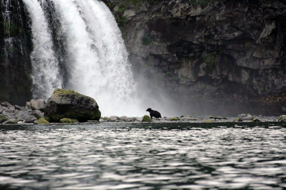 Bear in Kunashir near Ptichi (Bird's) waterfall